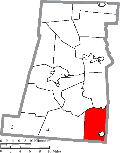 Map of the municipal and township boundaries of Madison County, Ohio, United States, as of the 2000 census, with the location of Pleasant Township highlighted. Township borders are shown only in unincorporated areas in order to differentiate incorporated and unincorporated areas more clearly.